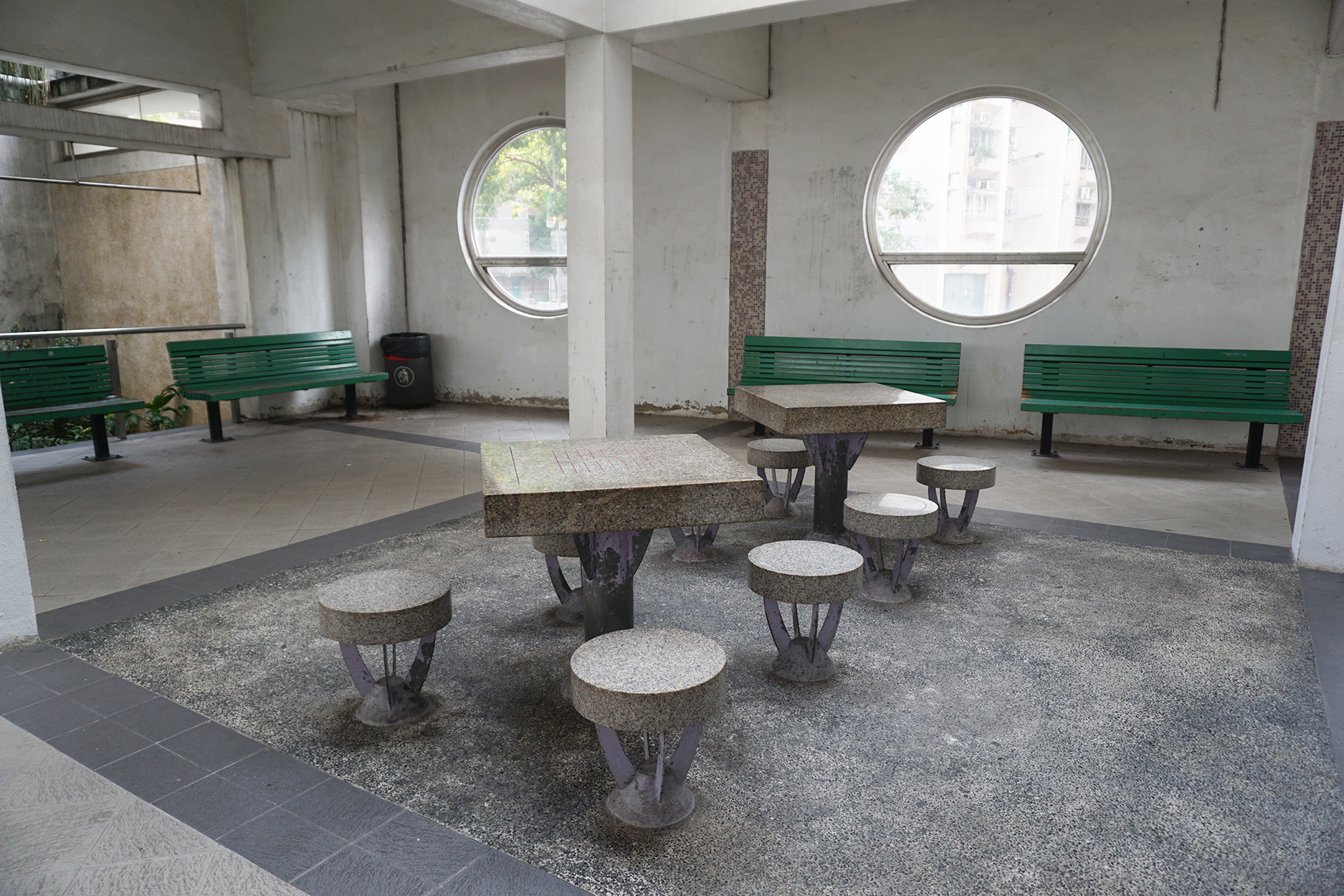 Tsui Ping (North) Estate in Kwun Tong, Hong Kong.